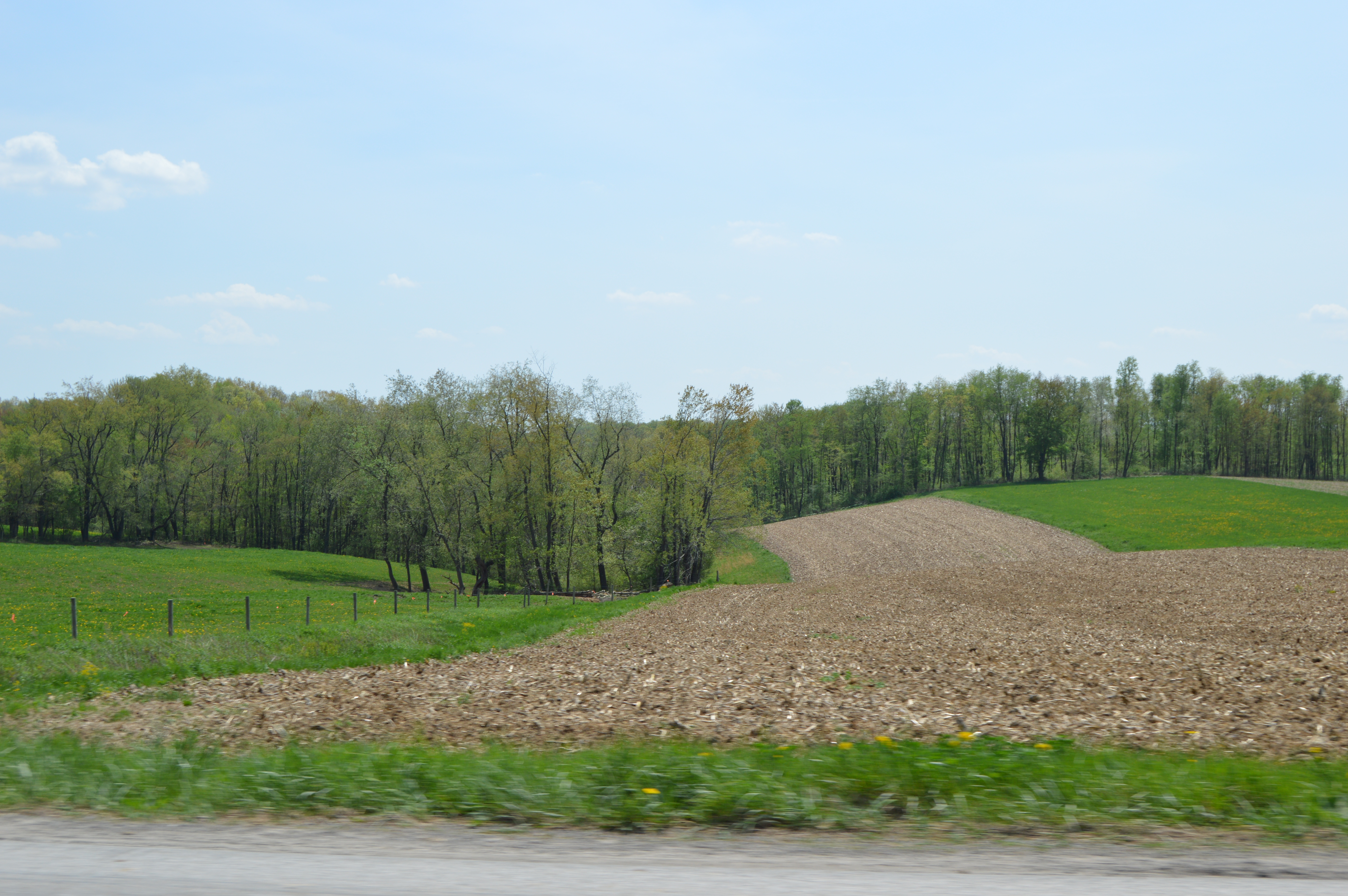 Looking south from Pennsylvania Route 210 atop the slight hill known as "Round Top", located east of Trade City in central North Mahoning Township, Indiana County, Pennsylvania, United States.